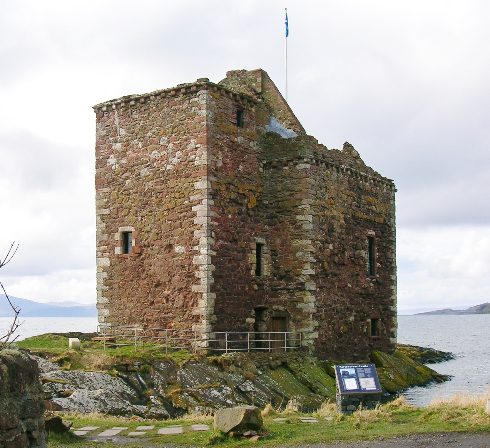 Portencross Castle and harbour, North Ayrshire, Scotland